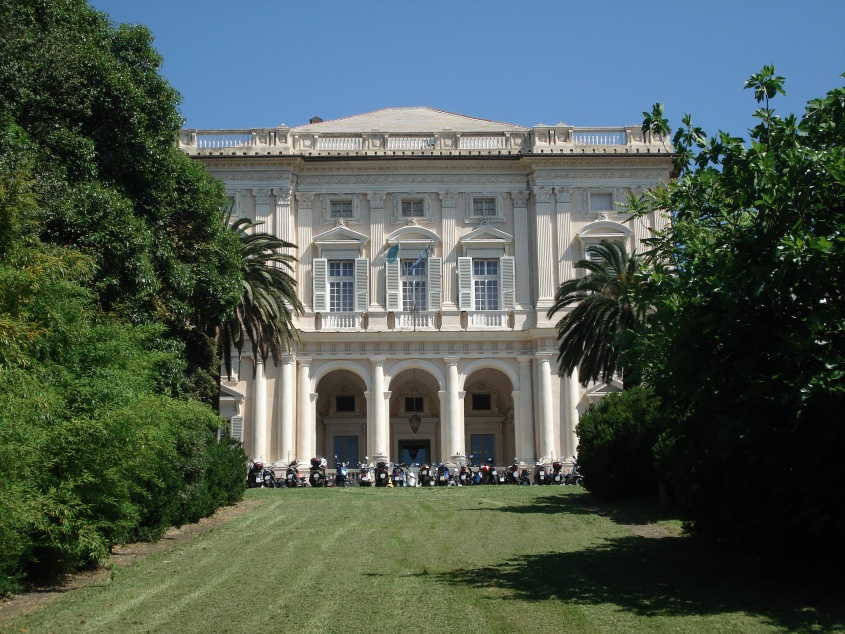 Villa Giustiniani Cambiaso in Genova